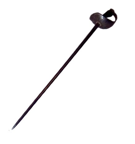 Photograph by User:Epeeist Smudge of a sword in his collection.